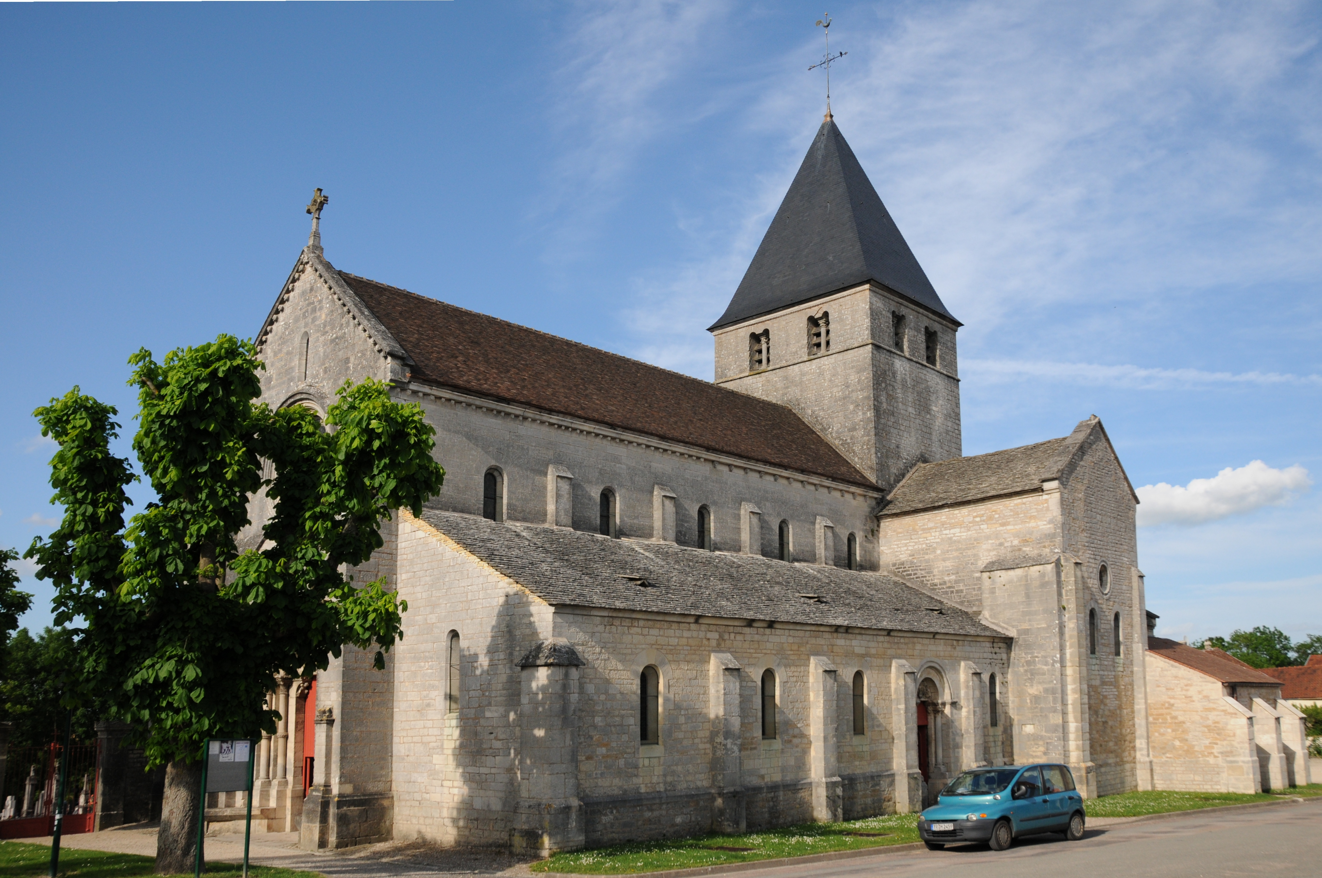 The church Saint Florent et Saint Honoré, Til-Châtel, Burgundy, France